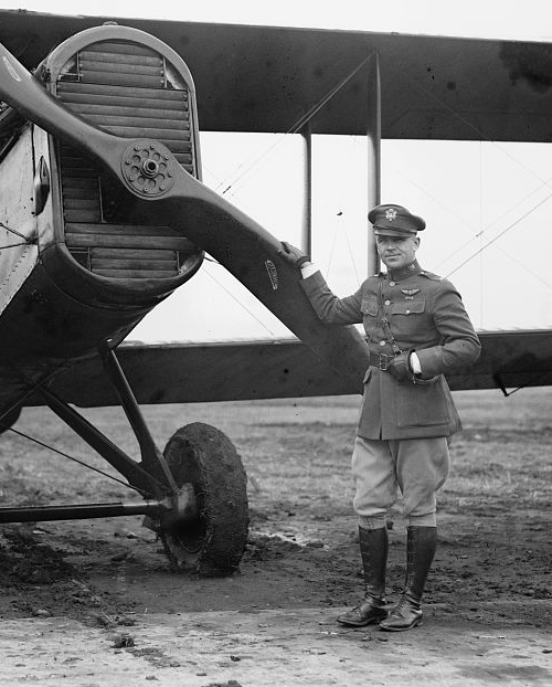 Lt. Corliss C. Moseley of Cal., 12/8/24